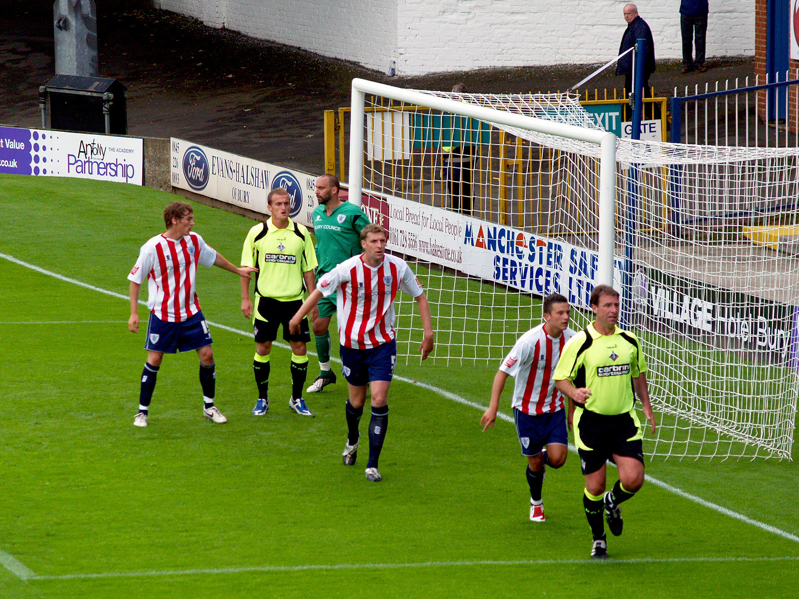 Bury defend an Oldham Athletic corner during the Bury vs. Oldham Athletic friendly game at Gigg Lane, home of Bury Football Club. Saturday 18th July 2009